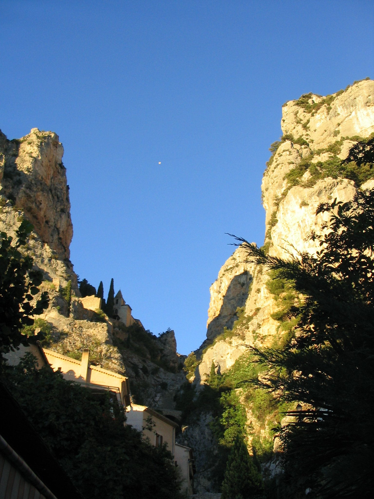 Moustiers-Sainte-Marie, Gorge with the Star, Provence, South France